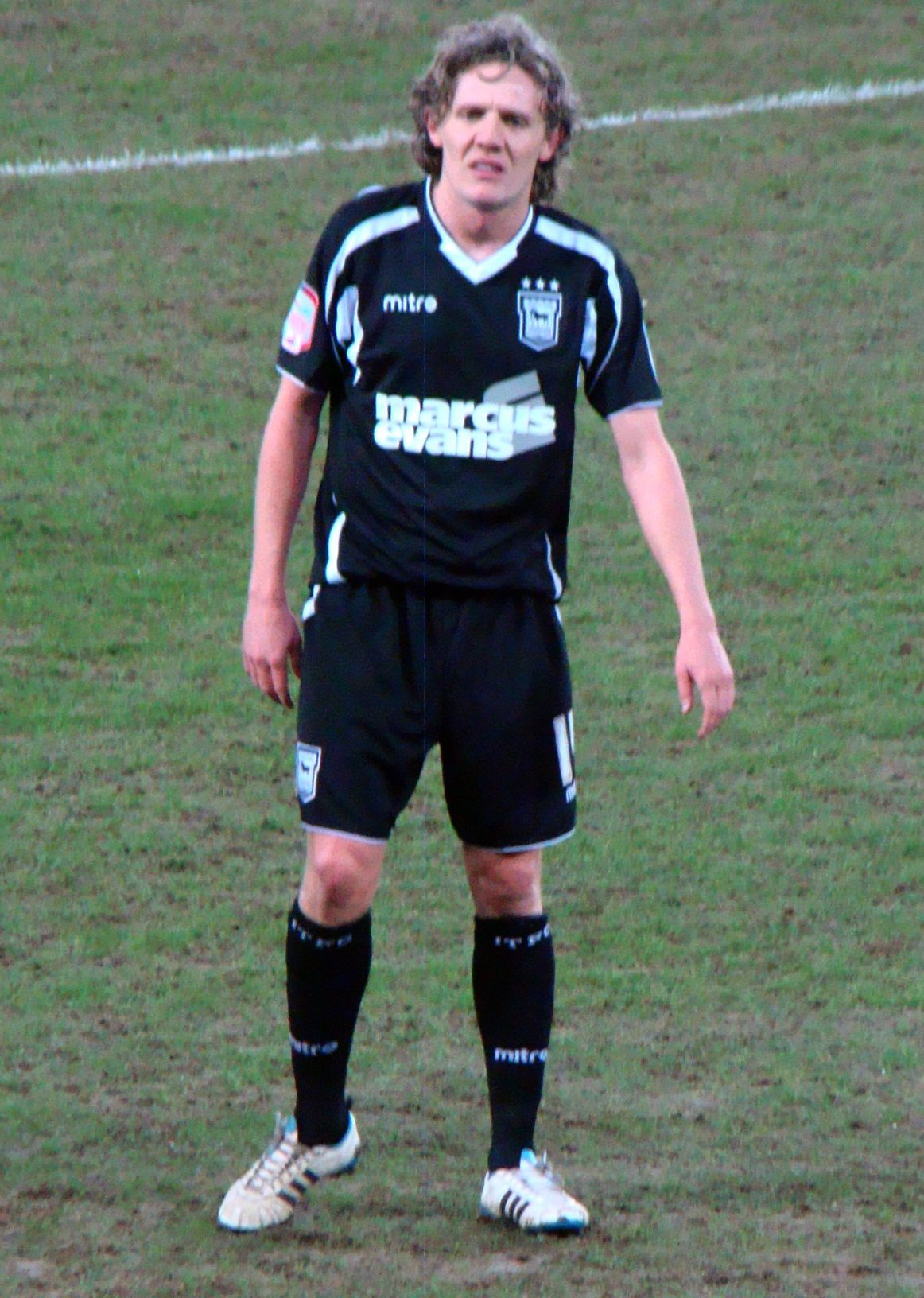 05/03/11 Cardiff V Ipswich, Championship, Cardiff City Stadium, Cardiff, Wales